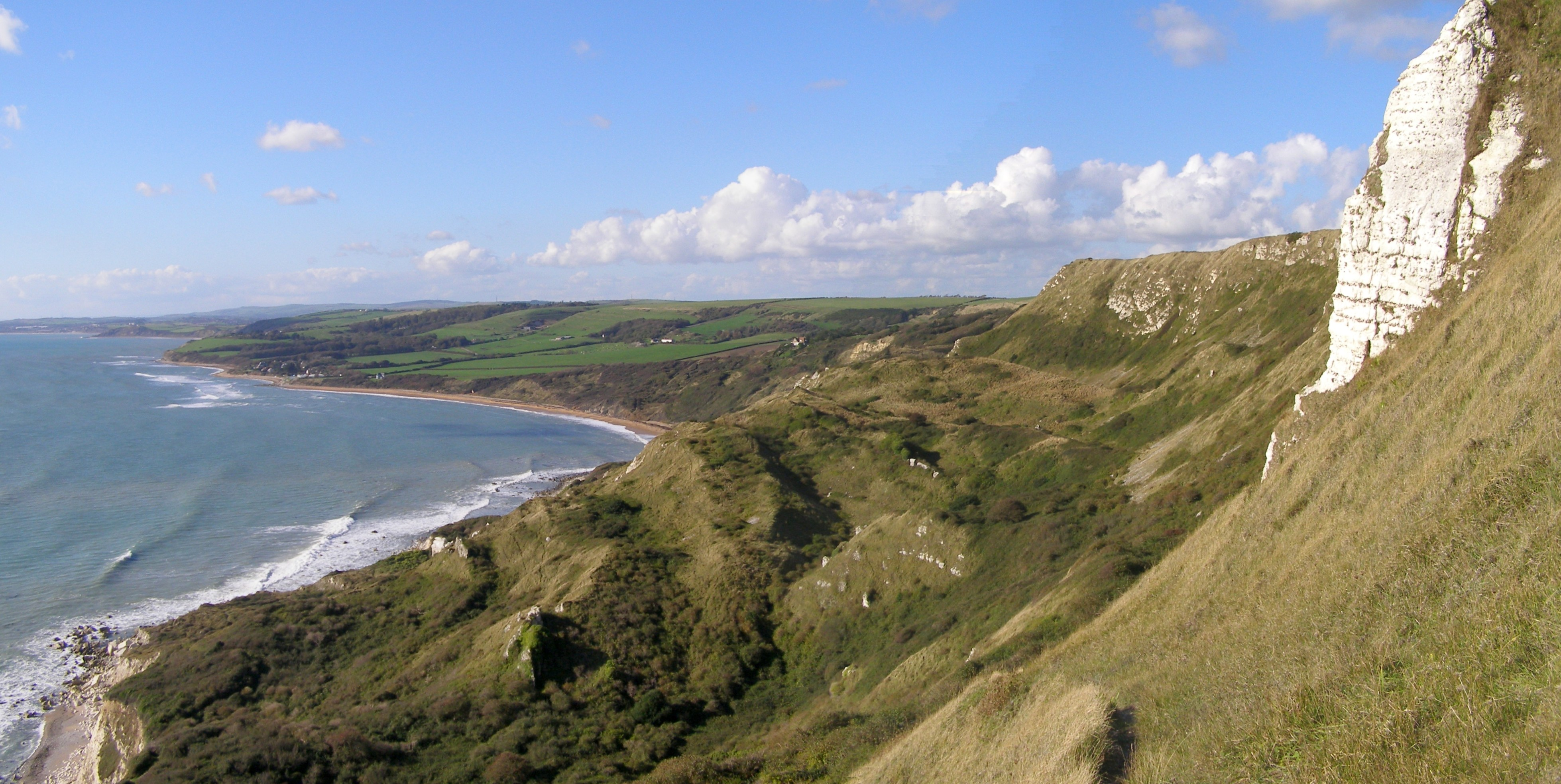 The White Nothe undercliff and Ringstead Bay from the Smugglers Path - panorama from 2 photographs joined using Panorama Maker 3.0